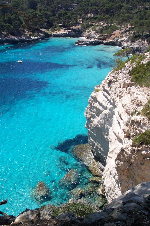 Minorca: View into the Cala Mitjaneta, next to Cala Mitjana, south western of Ferreries.